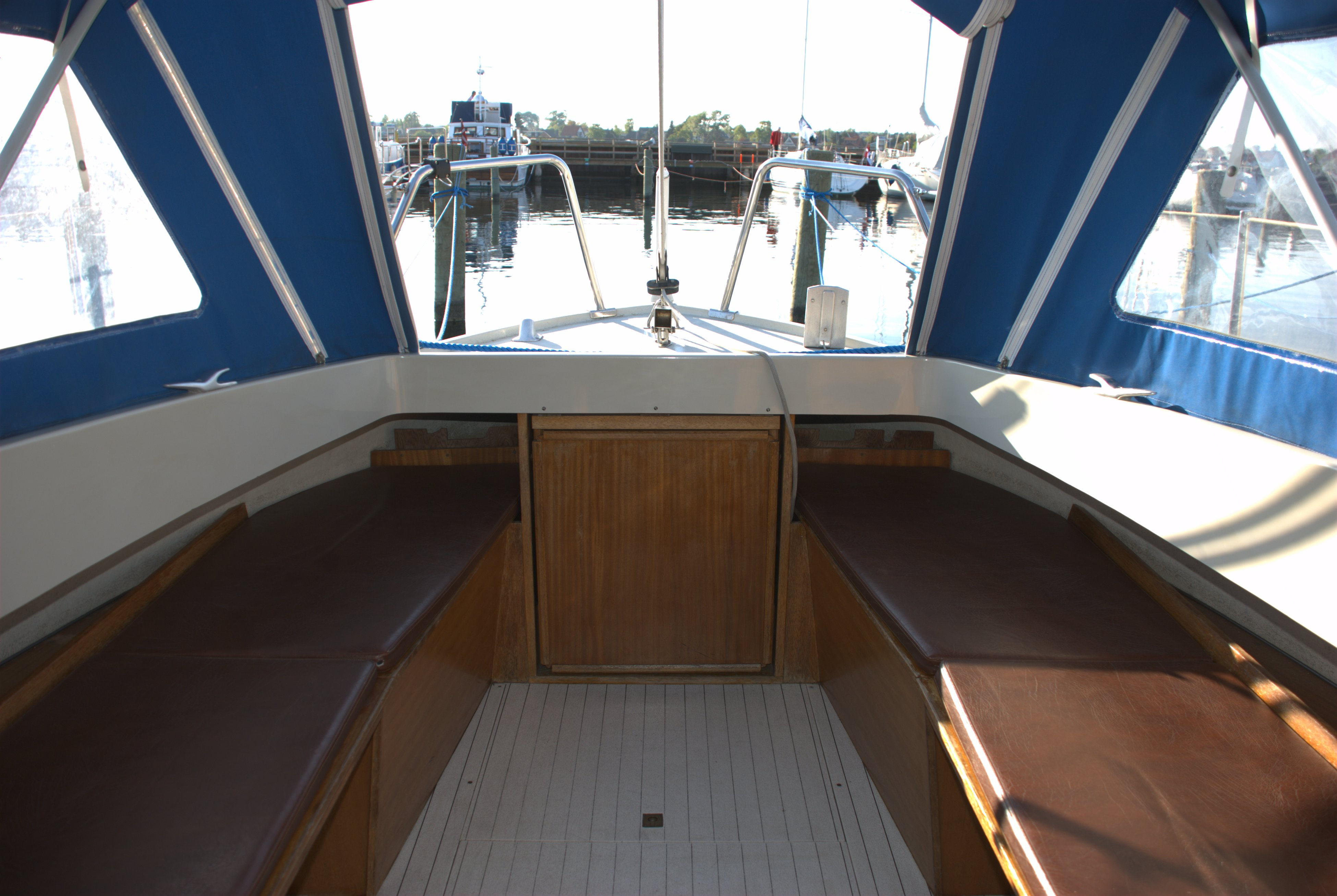 The internal stern of my parent's Lunderskov Møbelfabrik 24 made in the year 1976